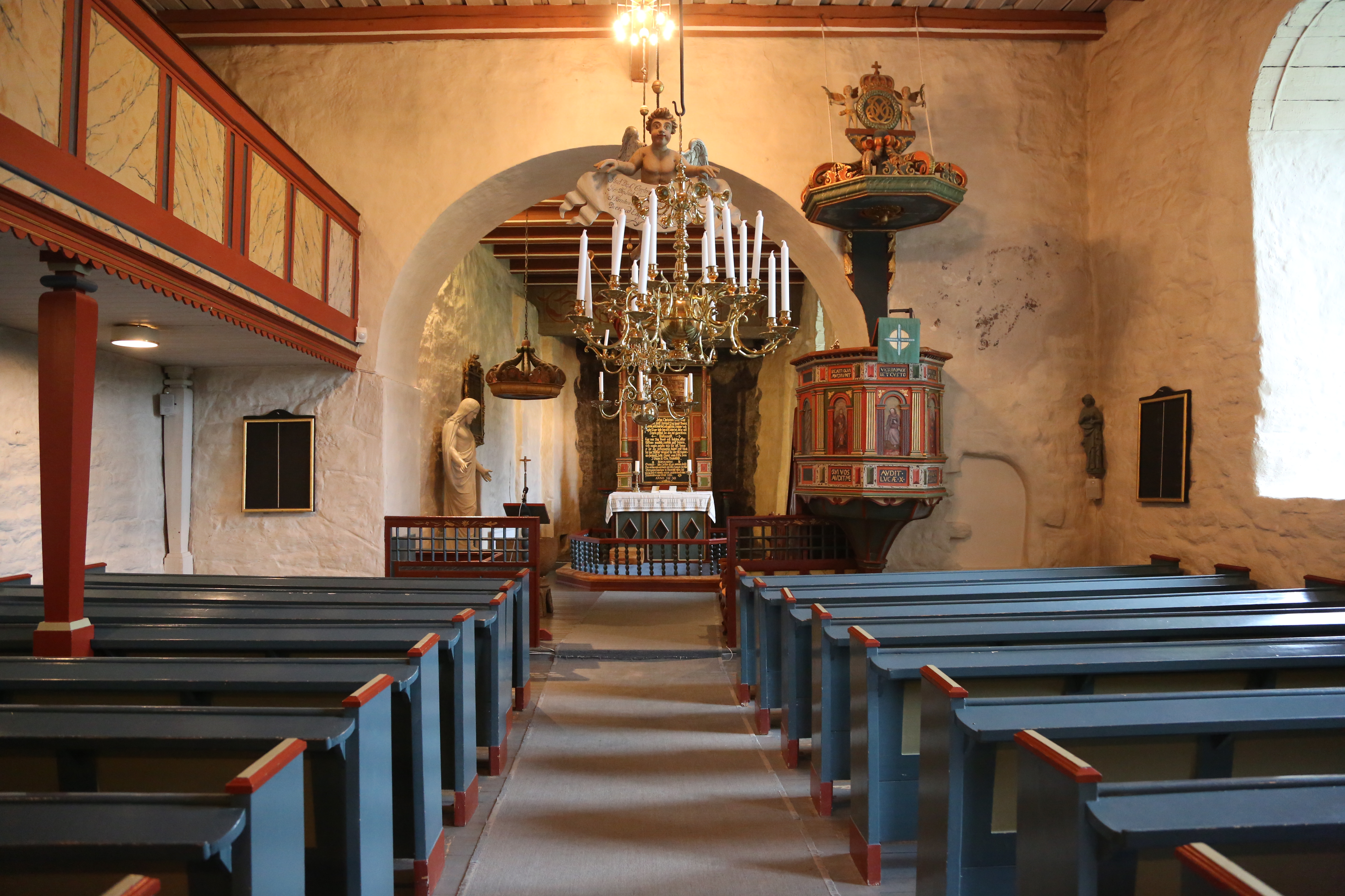 Hobøl church. Østfold, Norway. Interior